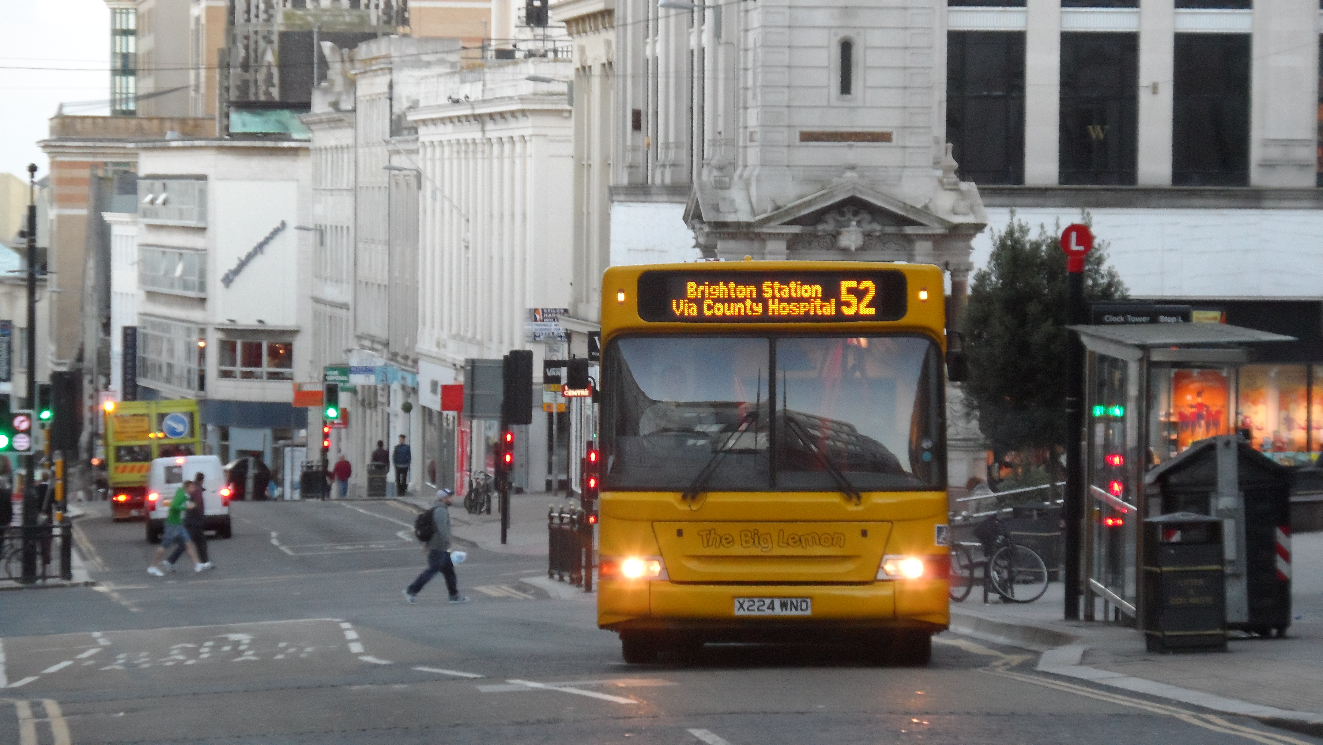 The Big Lemon X224 WNO, a Dennis Dart SLF/Plaxton Pointer 2, in Queen's Road, Brighton, East Sussex on route 52.